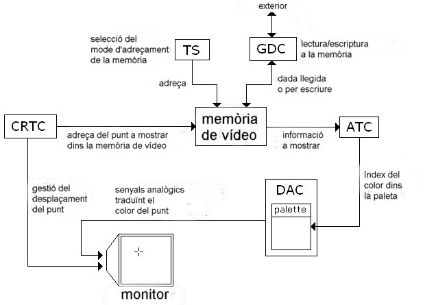 Operation of a VGA card